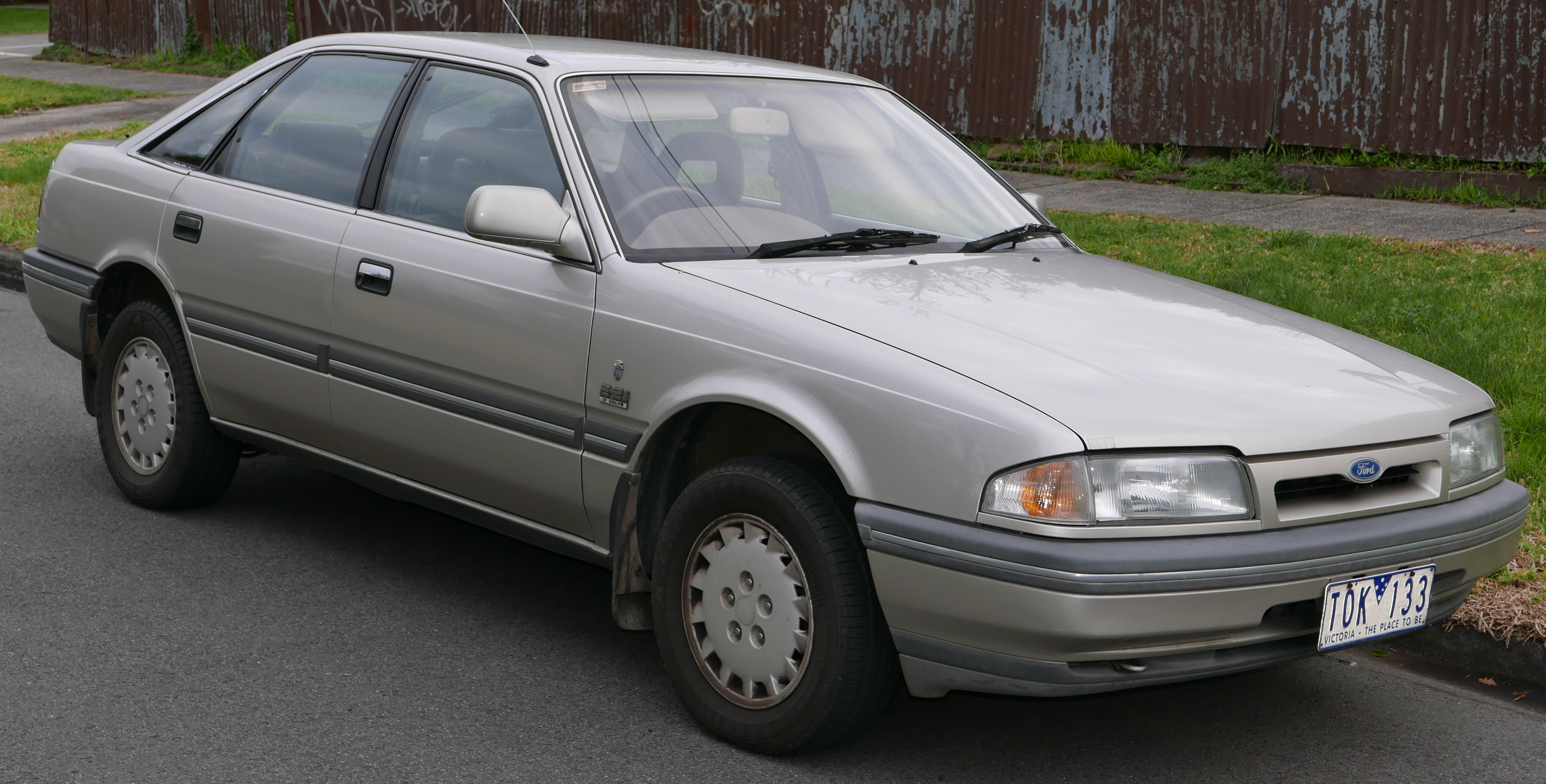 1991 Ford Telstar TX5 (AV) Ghia hatchback. Photographed in Northcote, Victoria, Australia. Vehicle registration enquiry results Jurisdiction Victoria Registration TOK133 Chassis code JC0AAASHWTMD33558 Engine code F2952787 Compliance date 1991-01 Year of manufacture 1991